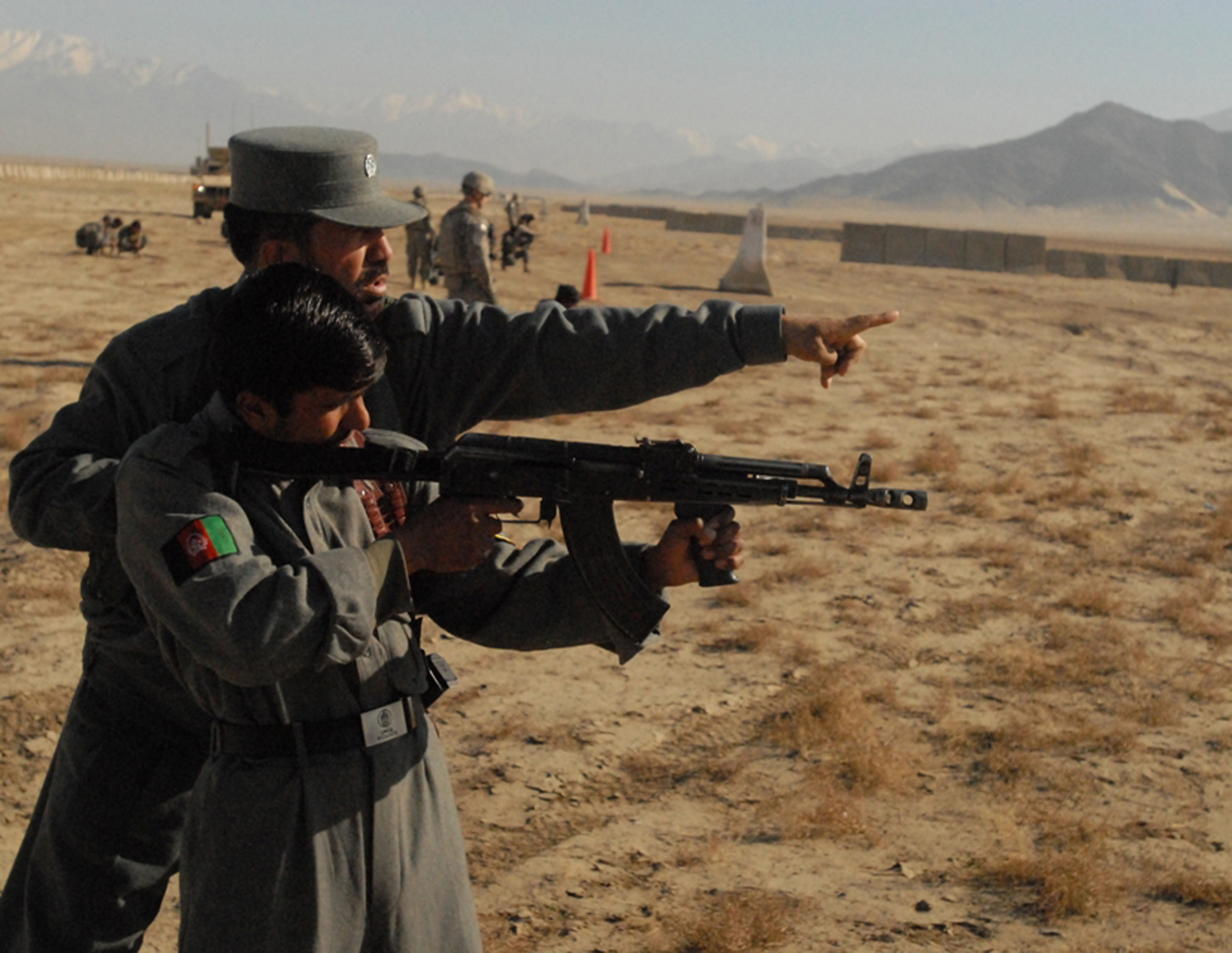 The police chief of Sayed Khayl district, Col. Mohammad Aref Hamidi, directs one of his policemen while firing an AK-47 rifle during a live-fire exercise with members of Task Force Gladius, 1st Platoon, B Company, 82nd Airborne Division Special Troops Battalion in Bagram district, Parwan province, Afghanistan, Jan. 10. The policemen of the district are in the last phase of their 30-day immersion training with Soldiers assigned to Task Force Cyclone.